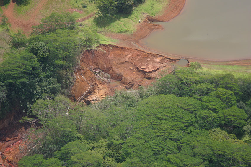 A close-up aerial photo of the Ka Loko Dam breach. Photo by Christopher P. Becker ( Photo taken on May 2, 2006 (several weeks after the burst).